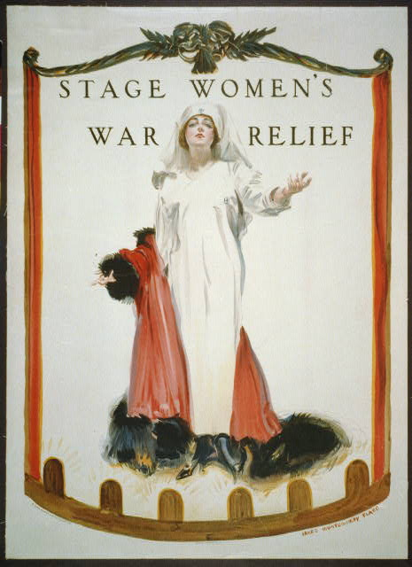 Title: Stage women's war relief / James Montgomery Flagg ; American Lithographic Co., N.Y. Abstract/medium: 1 print (poster) : lithograph, color ; 77 x 56 cm.